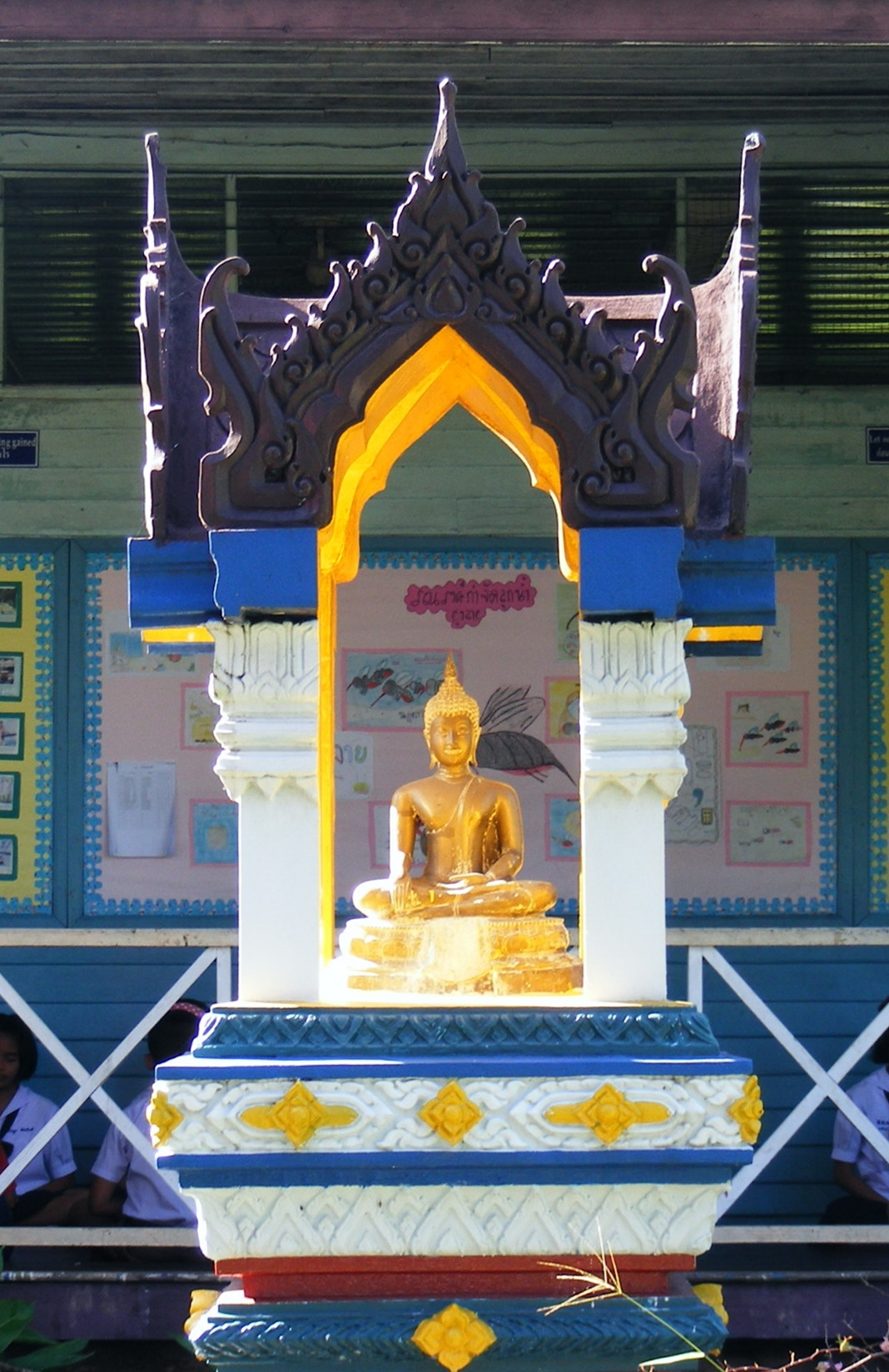 Phra Buddha Anantapanya Mahasirithammophas Location: Ban Hat Suea Ten School Ban Hat Suea Ten, Khung Taphao subdistrict, Mueang Uttaradit, Uttaradit Province, Thailand.